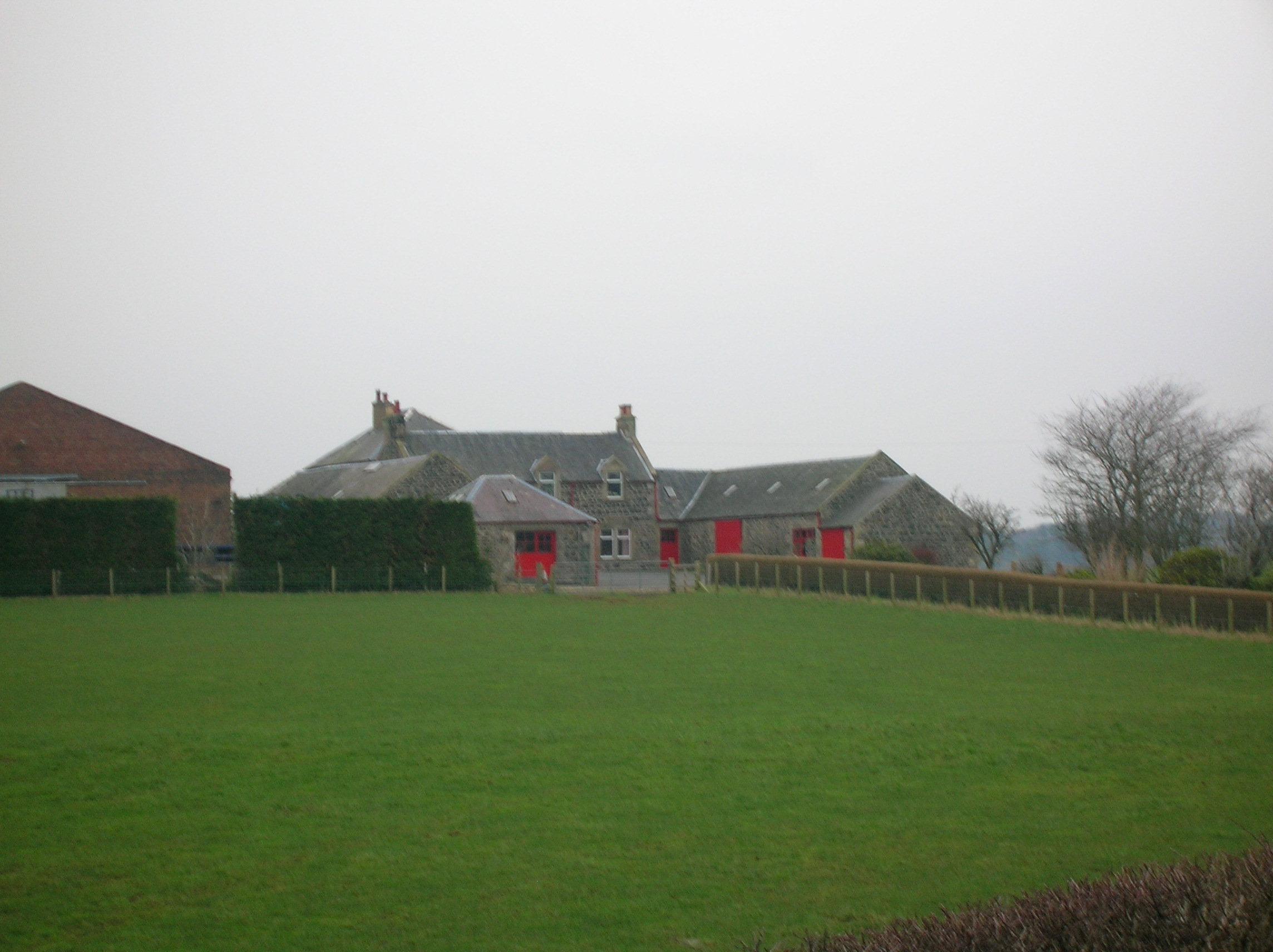 A view of Langlands Farm from the site of the old milestone on the old turnpike. North Ayrshire. 2007.